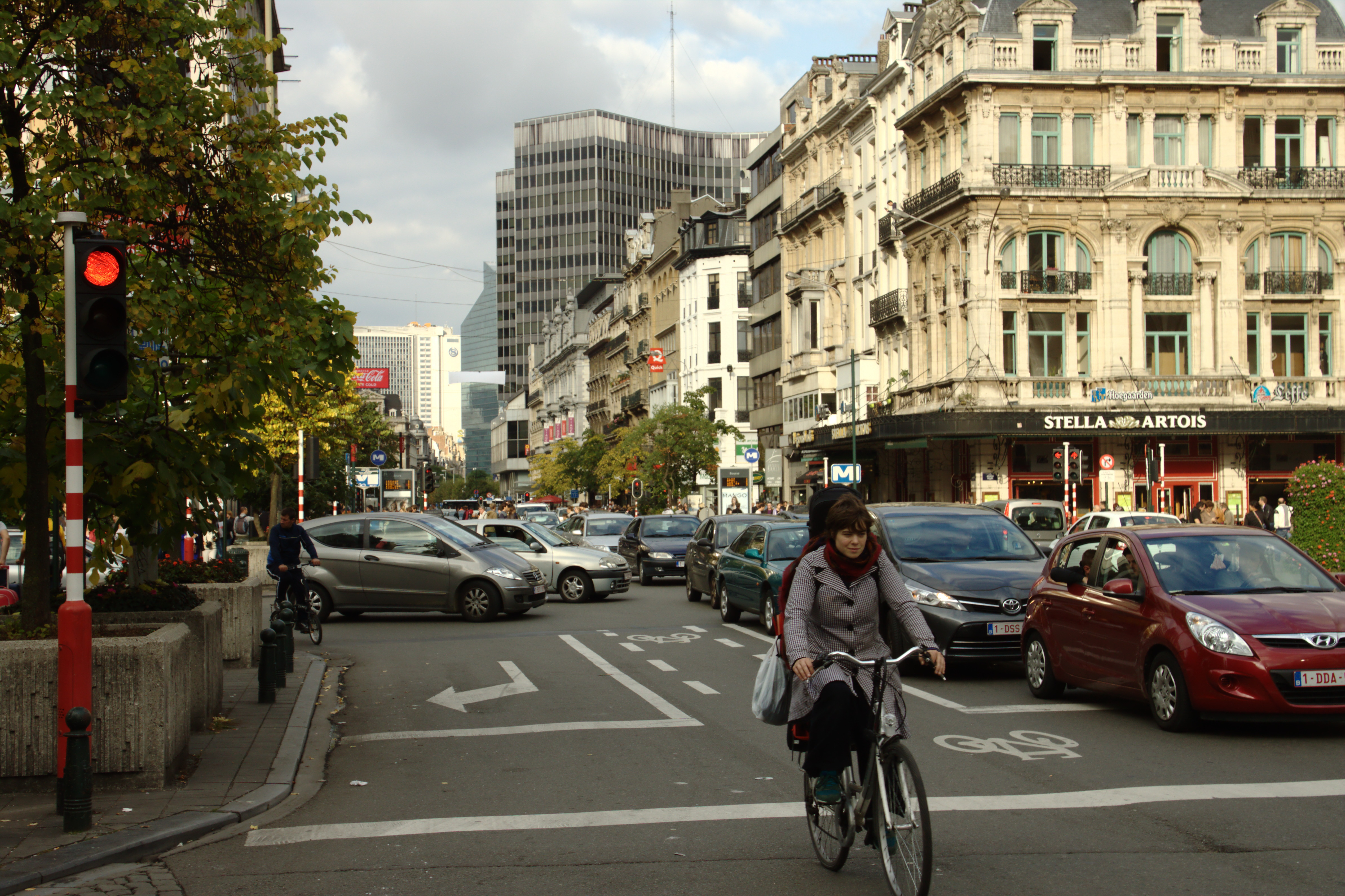 Anspach boulevard in central Brussels, Belgium